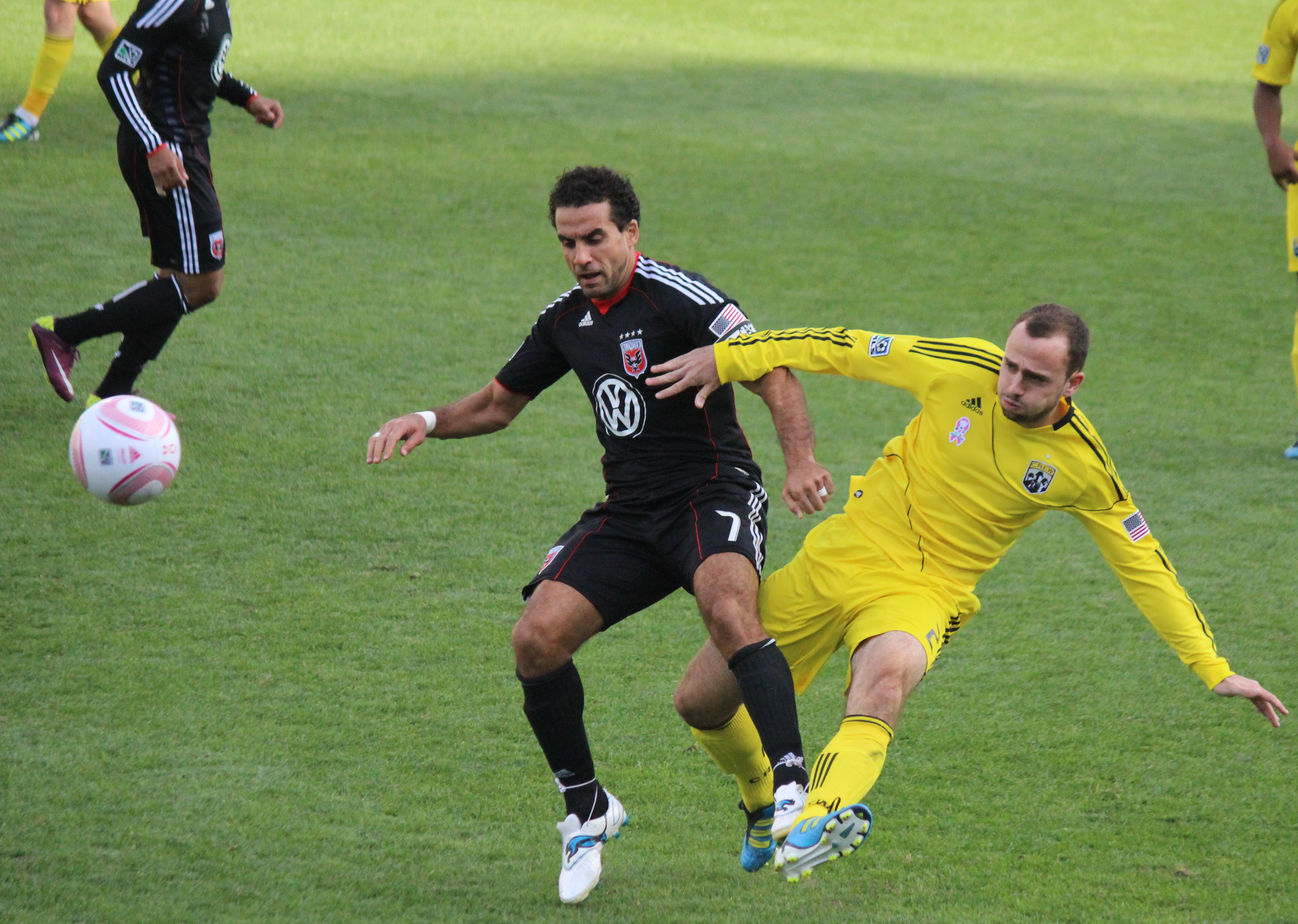 Columbus Crew defender, Rich Balchan, defends a ball against D.C. United forward, Dwayne De Rosario, during a regular season match at Columbus Crew Stadium on October 2, 2011 that ended in a 2-1 loss for United.